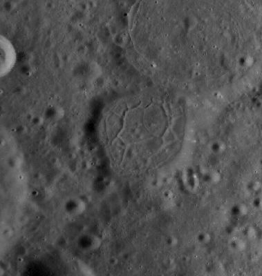 LROC image WAC No. M118892250ME.